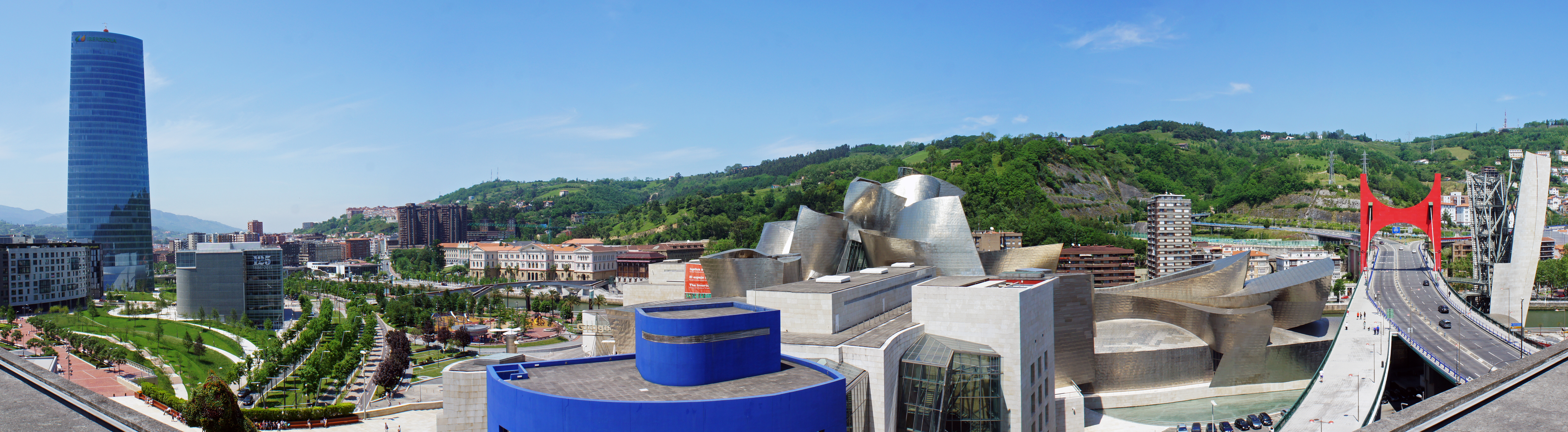 Panoramic view of the Guggenheim Museum Bilbao and surrounding area. At the left, Iberdrola Tower and at the right the La Salve bridge. Bilbao, Basque Country, Spain.